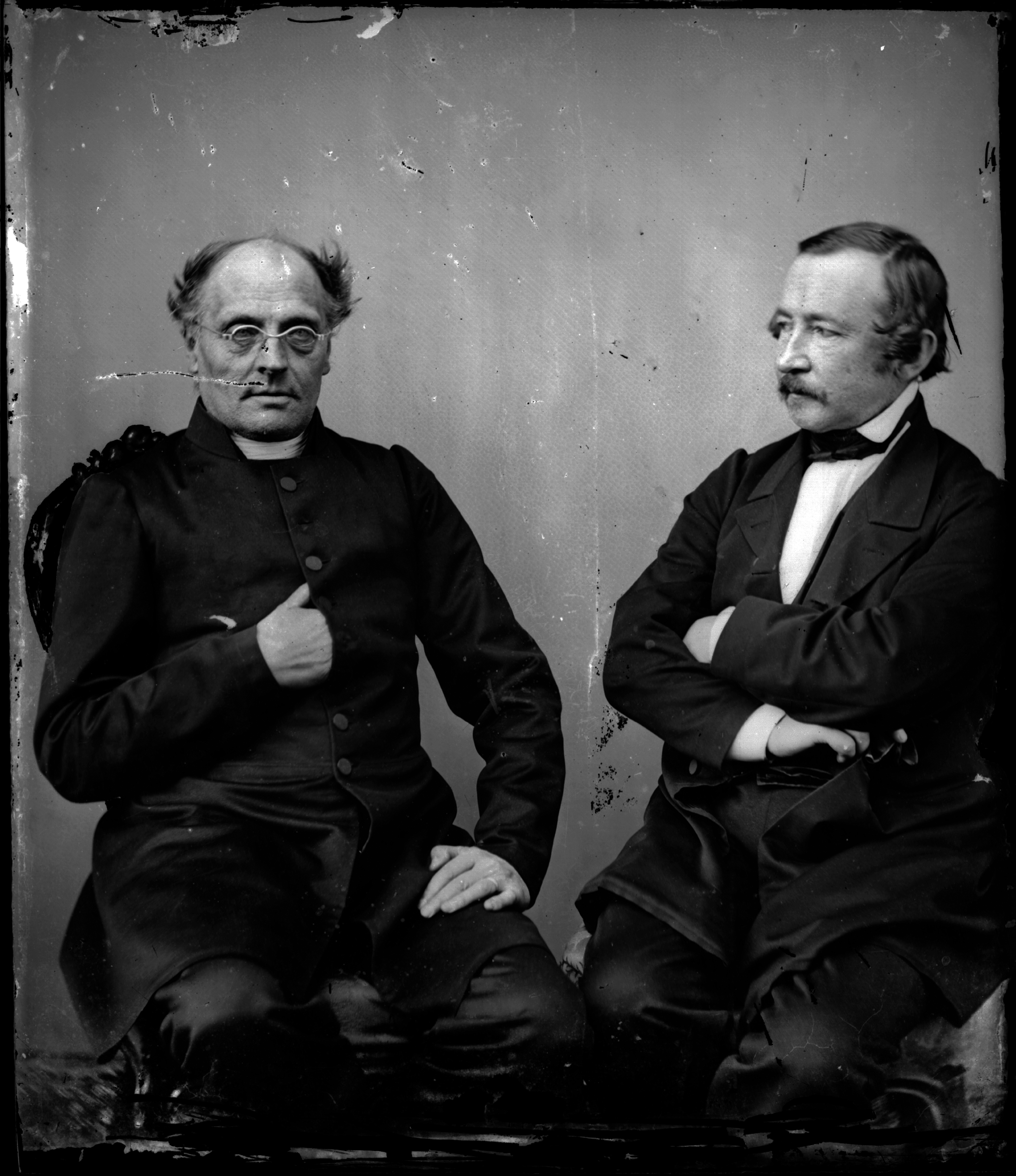 Johan Ludvig Runeberg och Zacharias Topelius, 1863 Det är retuschören som har åstadkommit ryggstödet till Runebergs stol, genom skrapning och målning med svart tusch på glasnegativets fotografiska hinna. slsa1160_447 Zacharias Topelius Skrifter Svenska litteratursällskapet i Finland